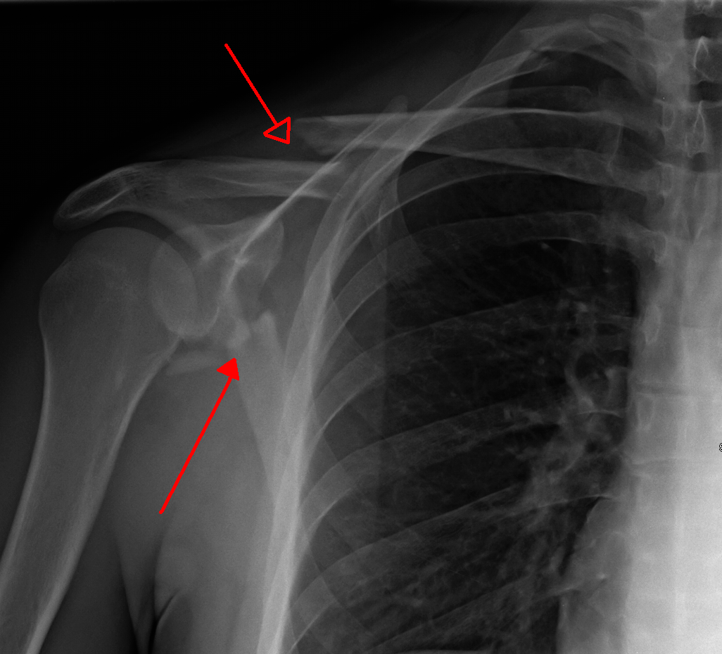 Fracture of the clavical and other the scapula